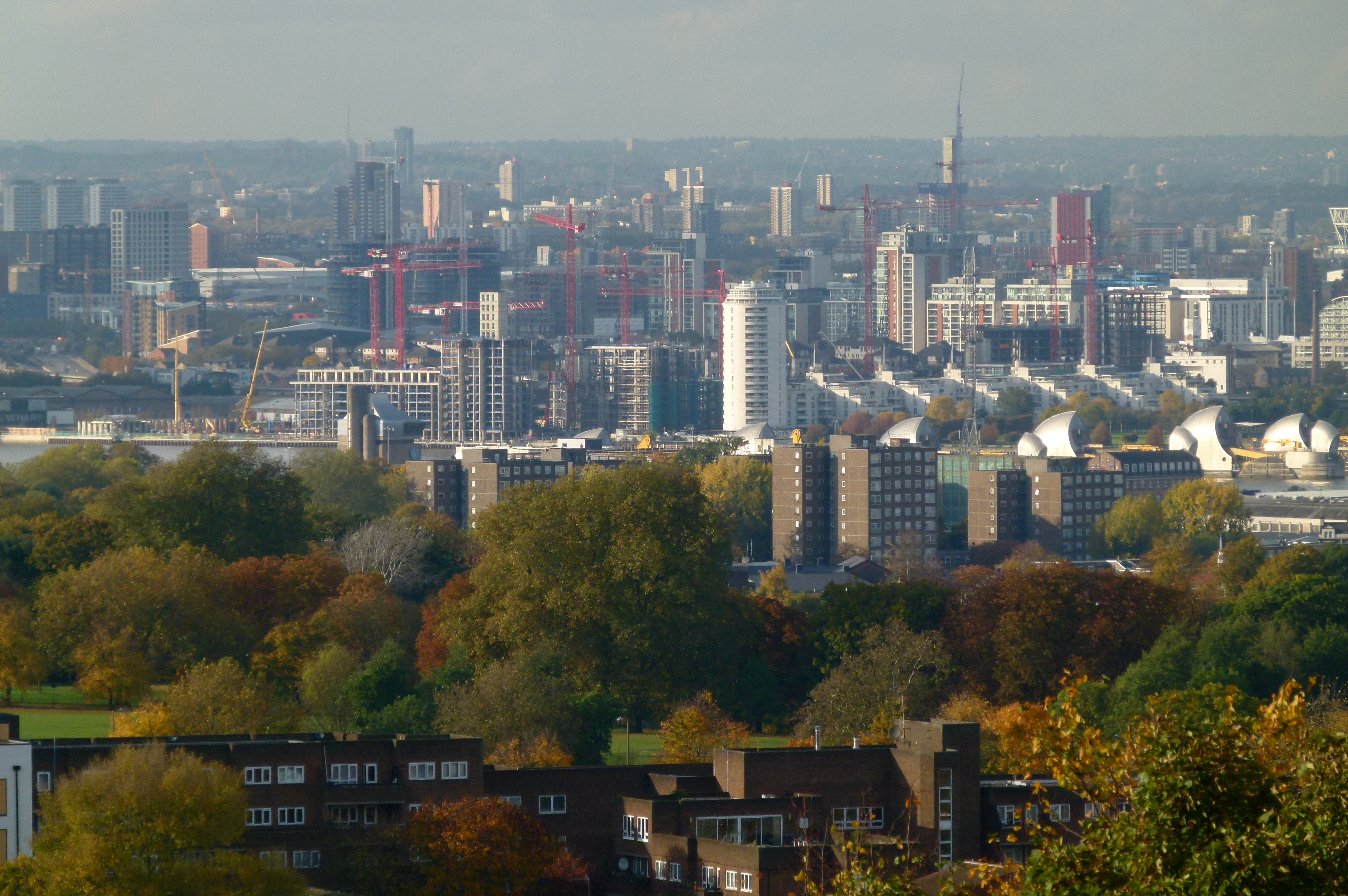 View from Shooters Hill of the Royal Wharf construction site in Silvertown, London Borough of Newham, East London.